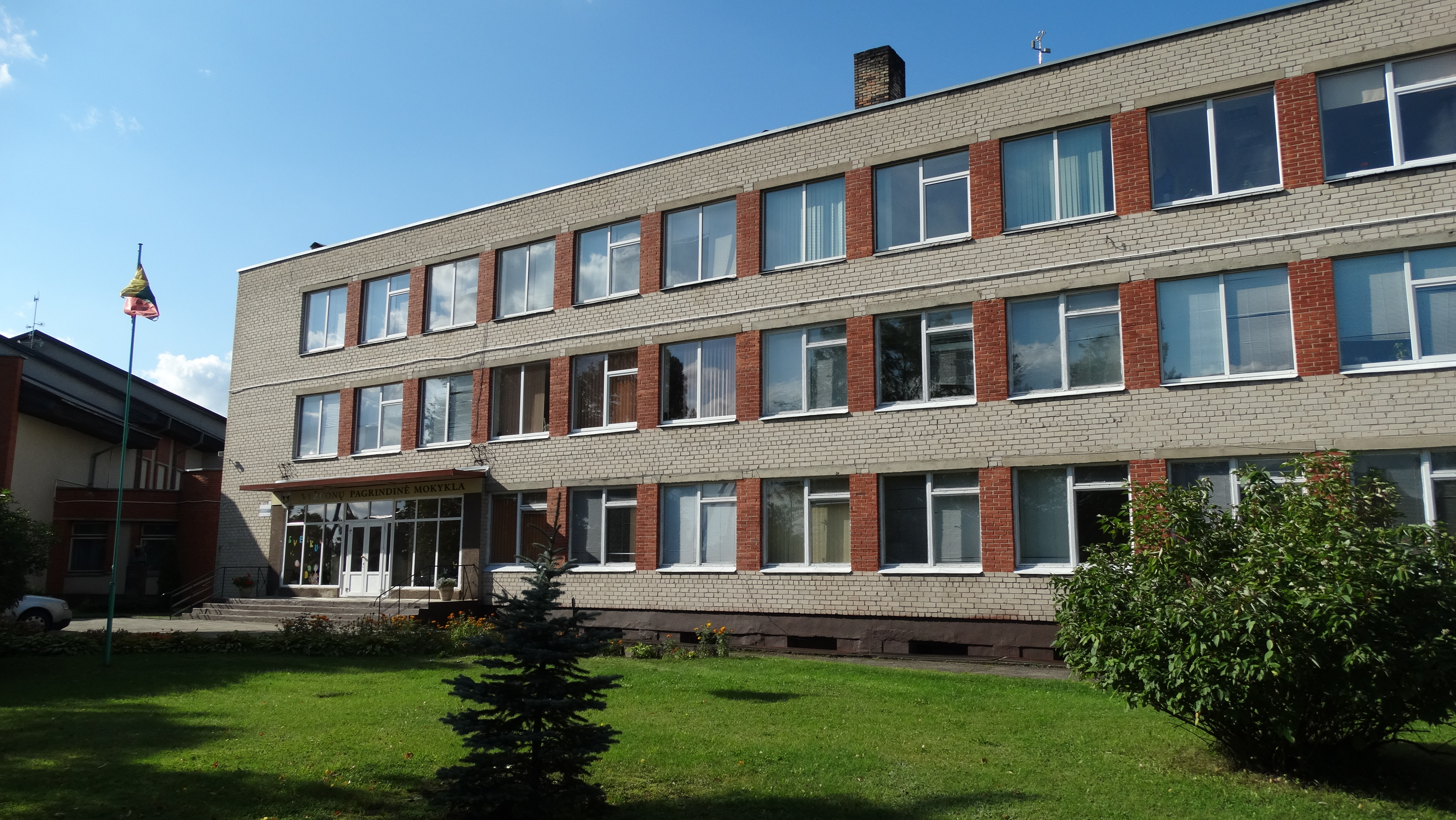 School, Vyžuonos, Utena district, Lithuania